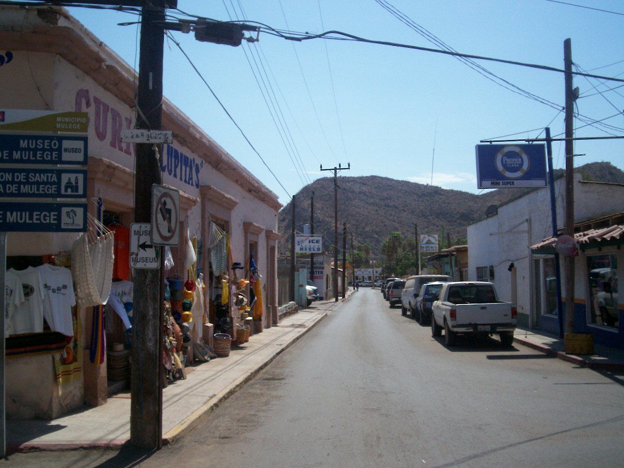 Street of the town of Mulegé, BCS, México.